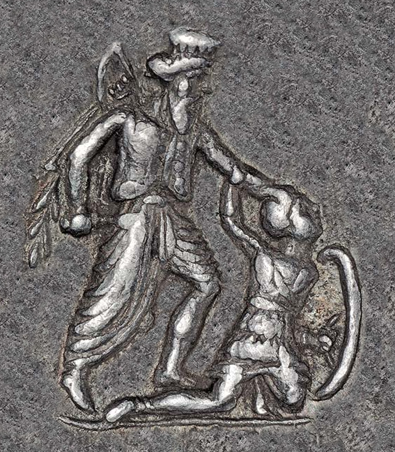 Persian King and Hoplite Oborzos coinage